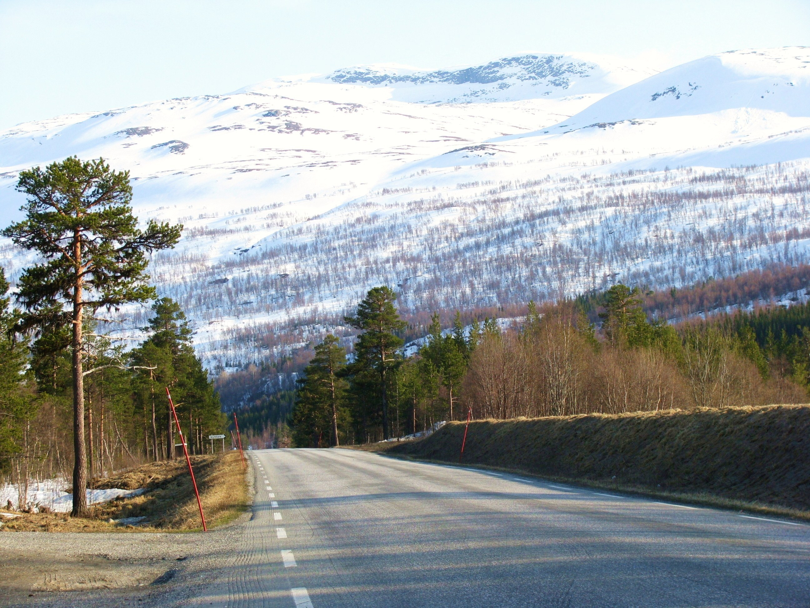 Driving towards the Saltfjell mountain range. View from E6 road, driving from south, Rana municipality, Nordland, Norway. This is nearly at the Arctic Circle. May 2011.